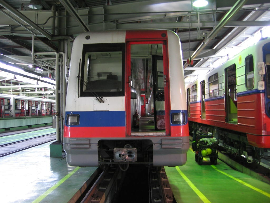 Alstom Metropolis 98B, Warsaw metro